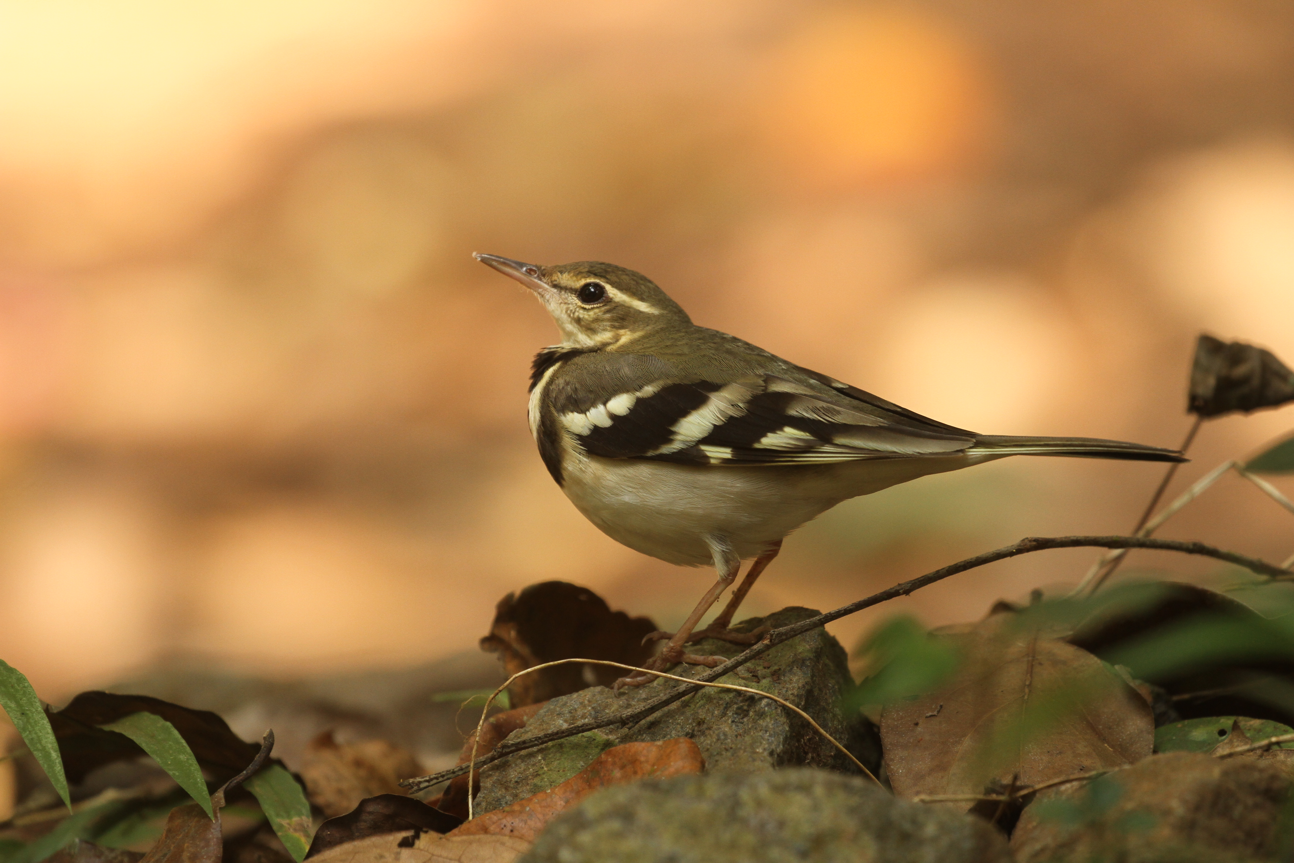 Birds of India